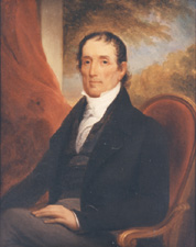 Portrait of Louisiana politician and plantation owner Jean Noel Destréhan (1754-1823)